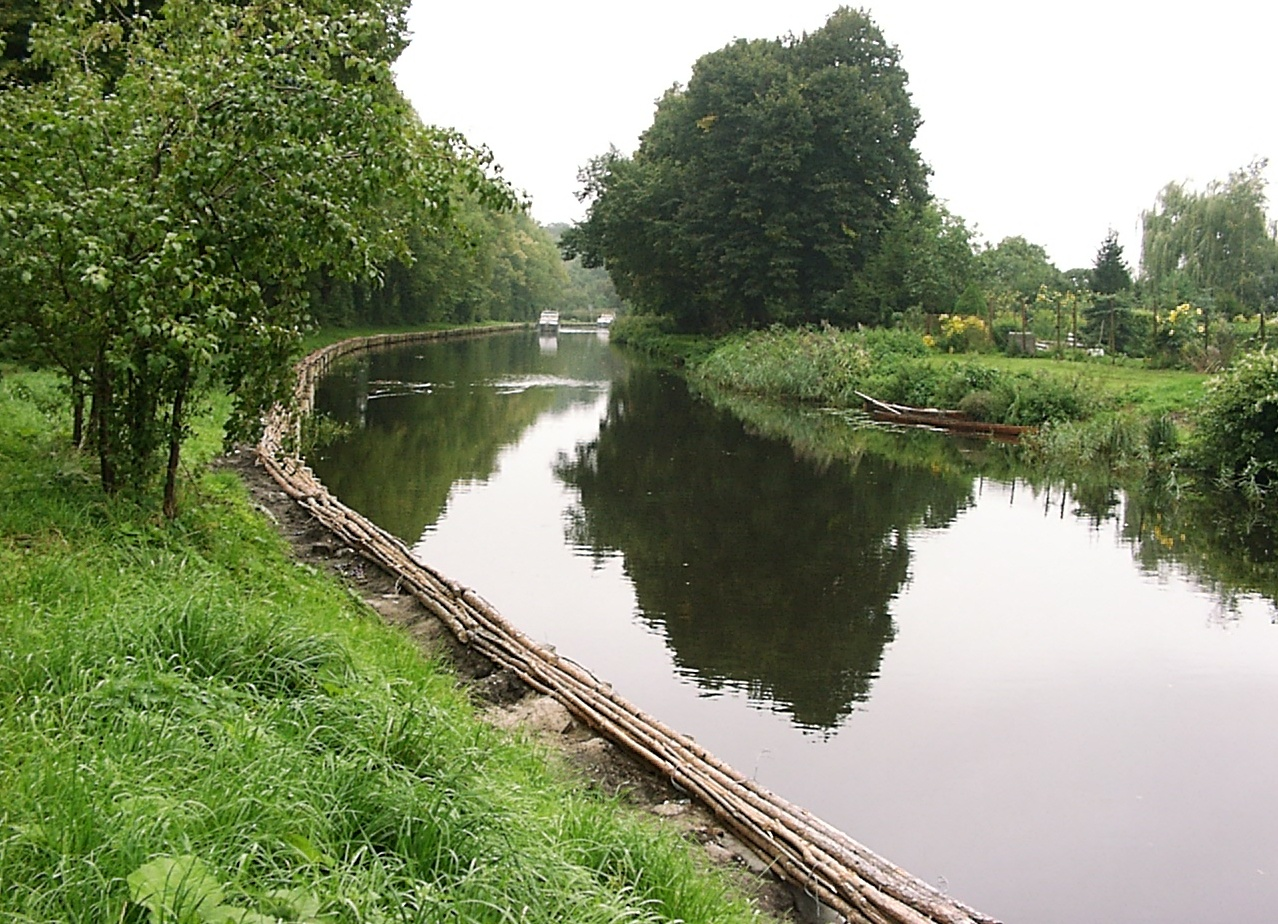 Templin Channel in Templin, Brandenburg, Germany. Riverbank strengthened with fascines.